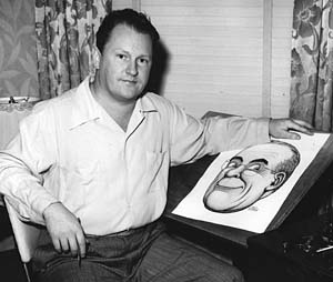 Cartoonist Basil Wolverton at his drawing board, about 1950